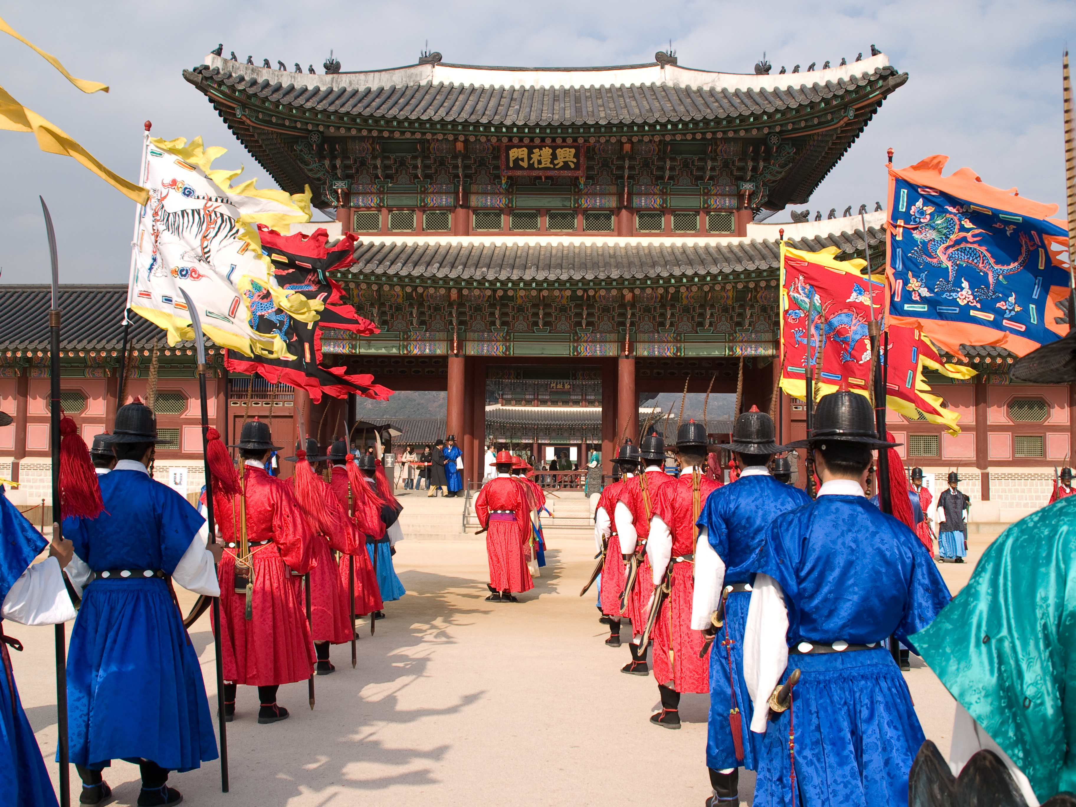 The changing of the guard ceremony at the Gyeongbokgung Palace.